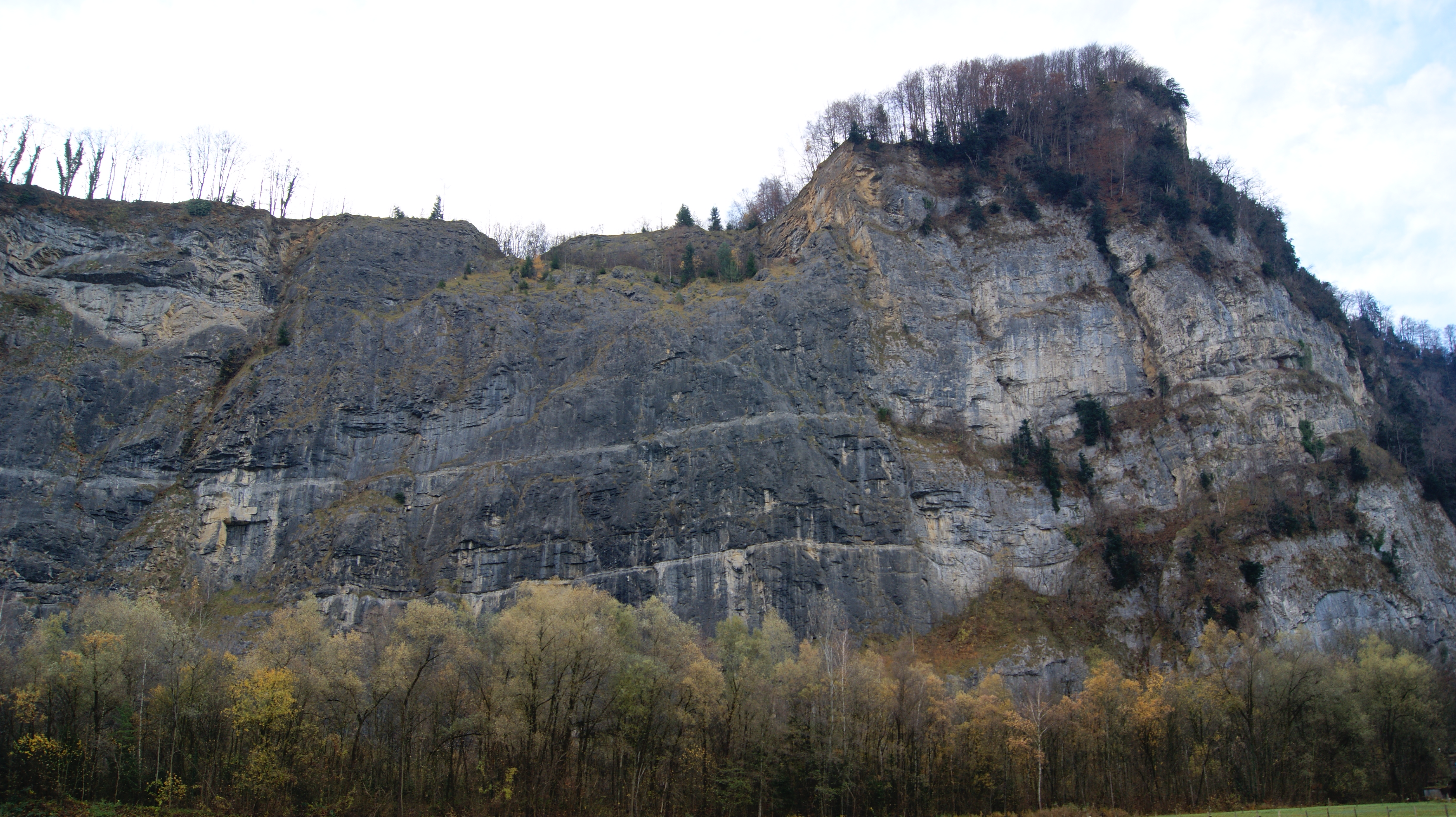 Quarry Buechele in Hohenems, Vorarlberg, Austria. Also quarry "Spitzenegg" or quarry "Erlach". Since 1976, out of operation.